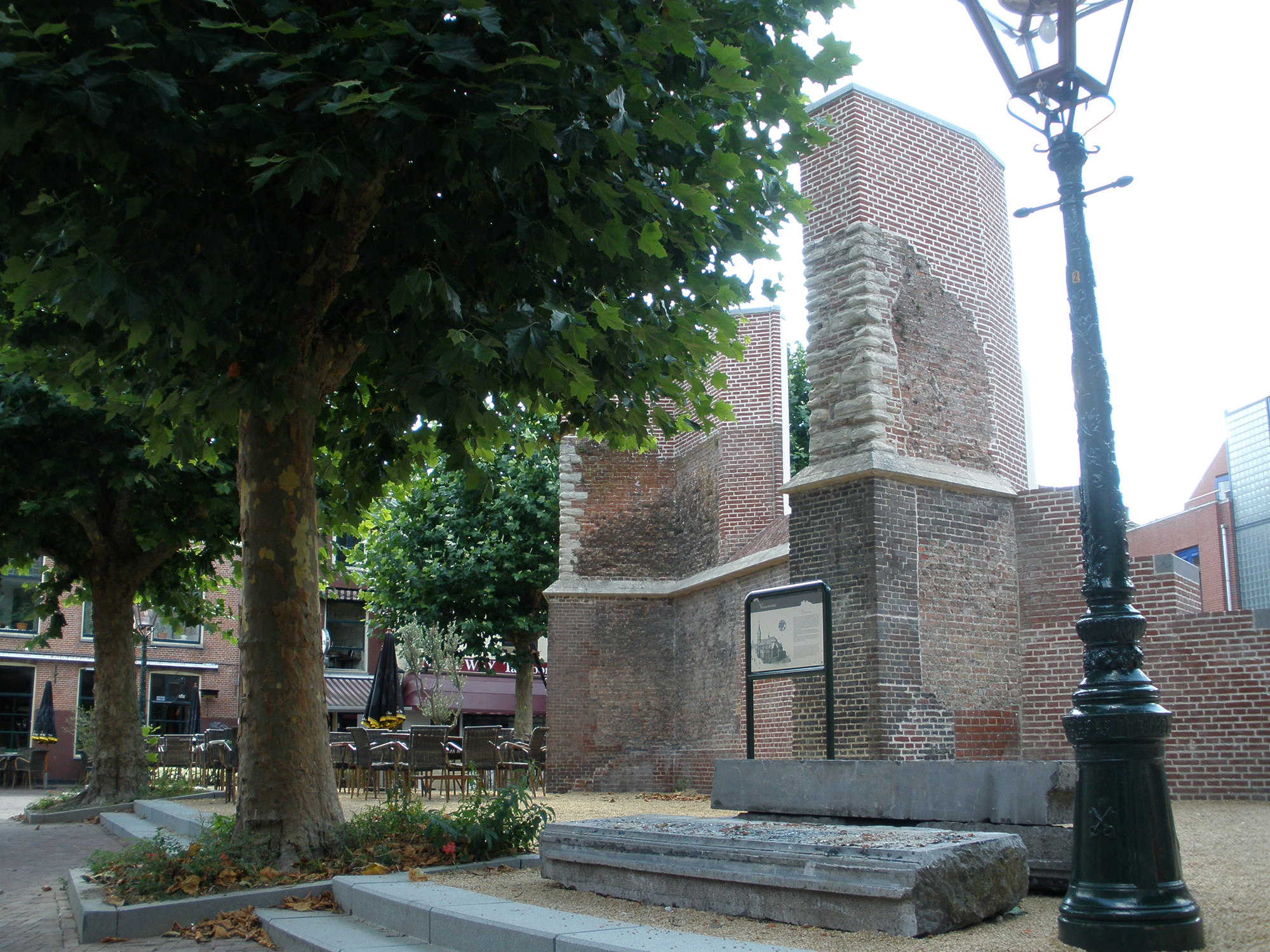 Remains of the Vrouwekerk in Leiden, the Netherlands